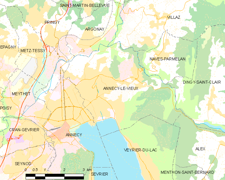 Map of French municipality Annecy-le-Vieux